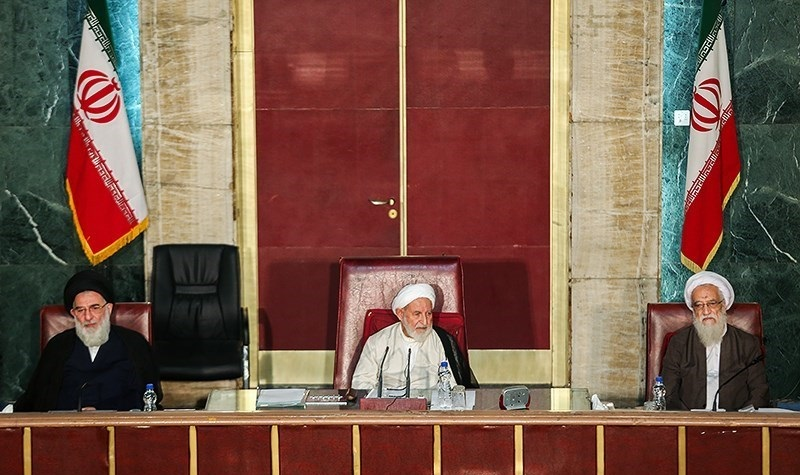 4th Assembly of Experts leadership